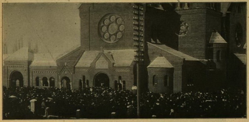 Sanctification of Church of Saints Simon and Helena (Minsk, Belarus), 1910 AD